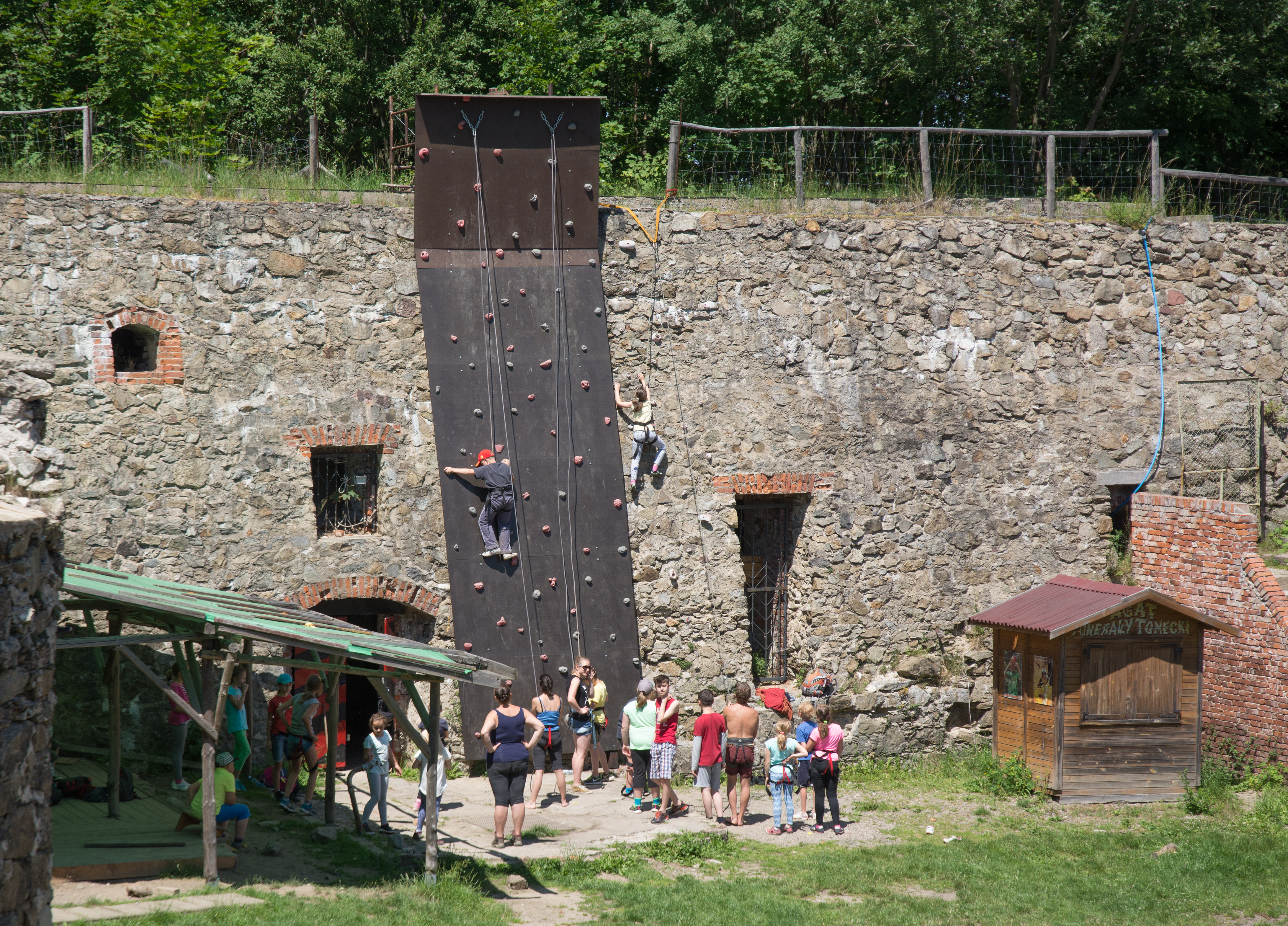 Fort Wysoka Skała in Srebrna Góra